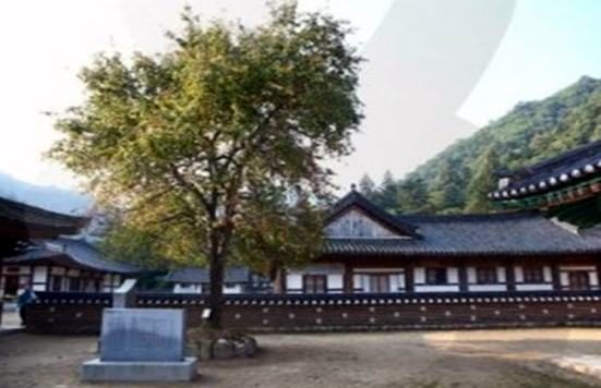 Seonwon (Meditation hall) of Baekdamsa Temple